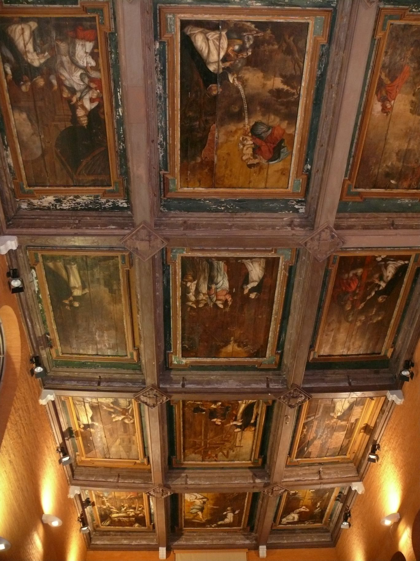 Chapel of the Maison Seilhan, in Toulouse (Haute-Garonne, France).